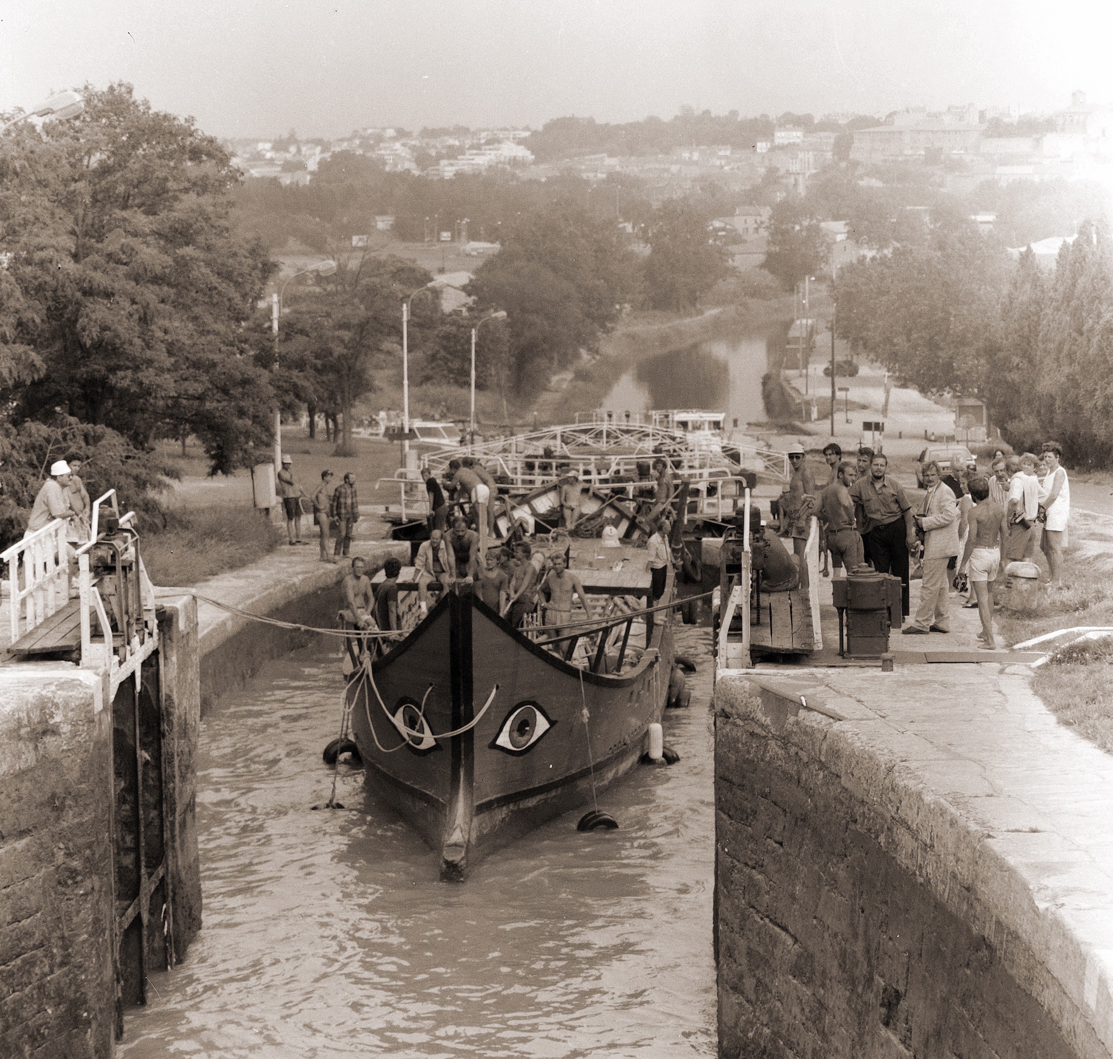 Ivlia leaves the Fonserannes locks. They consist of eight oval-shaped lock chambers, characteristic of the Canal du Midi, and nine gates, which allow boats to be raised a height of 21.5 metres (71 ft) over a distance of 300 metres (980 ft).